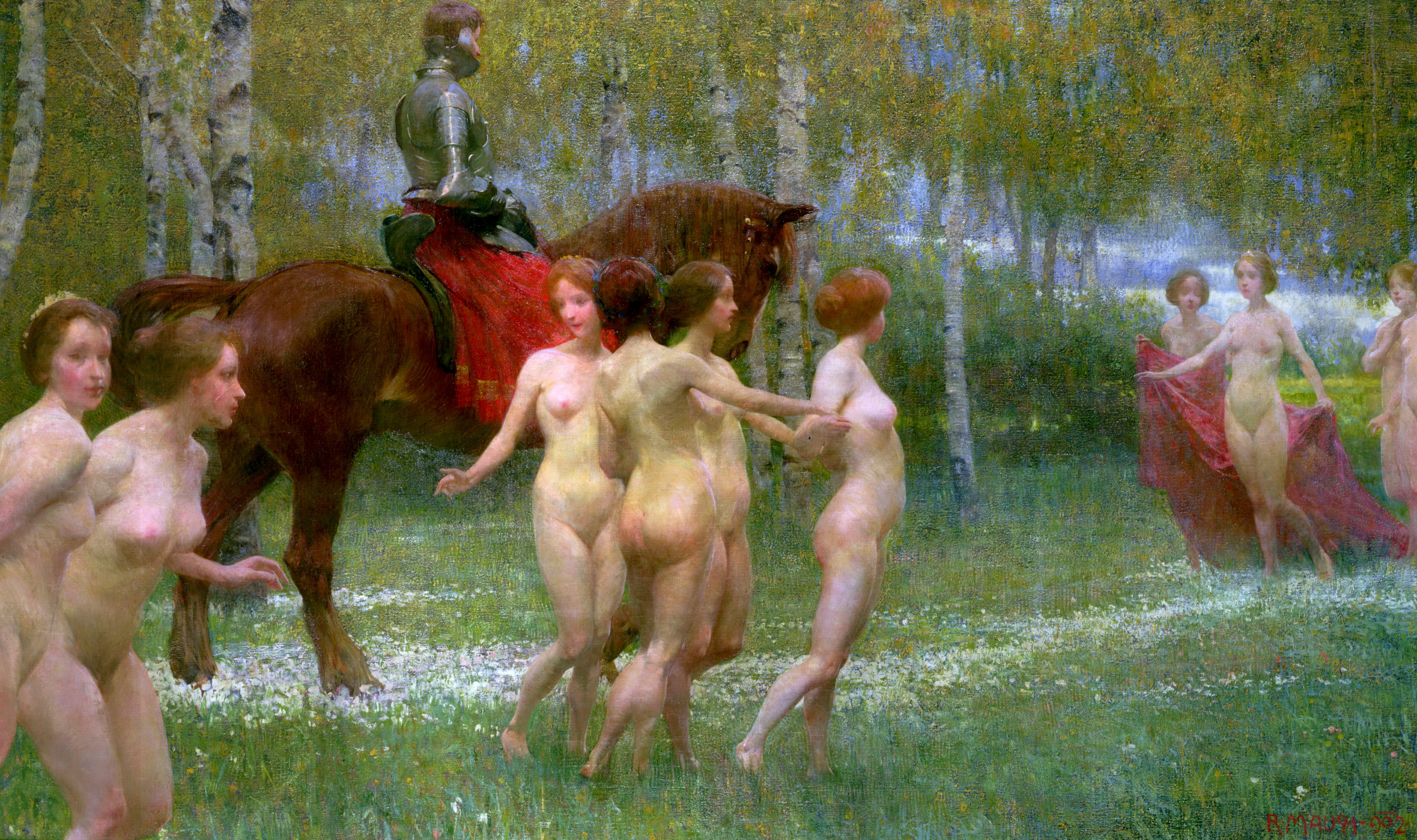 The Knights dream